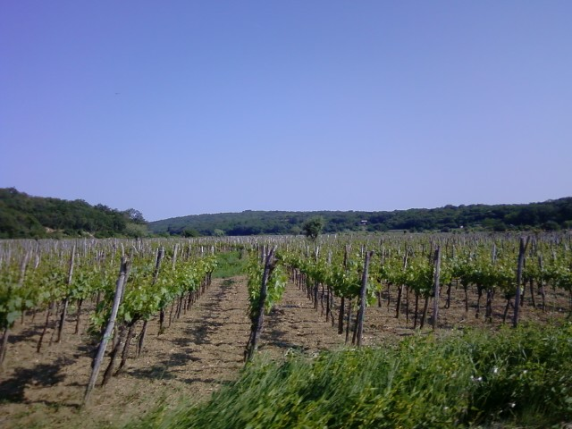 Wineyard near Vrbnik on island Krk in Croatia.